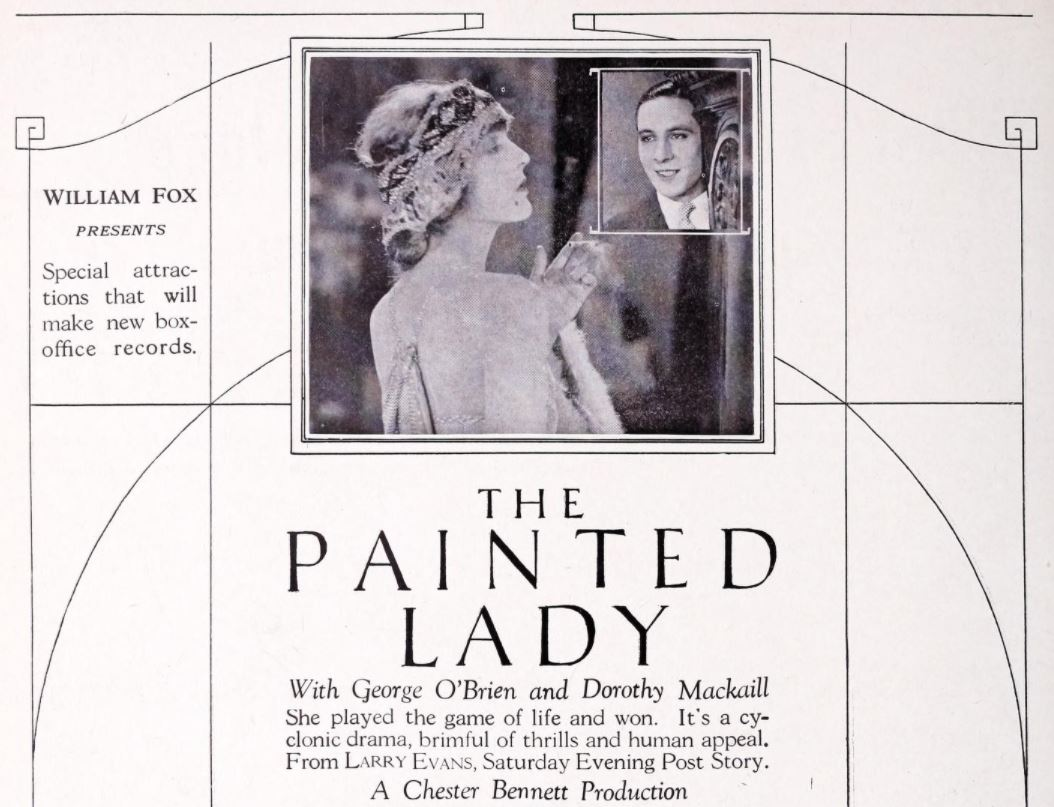 Advertisement for the American drama film The Painted Lady (1924) with Dorothy Mackaill and George O'Brien, on page 10 of the September 28, 1924 Exhibitors Herald.